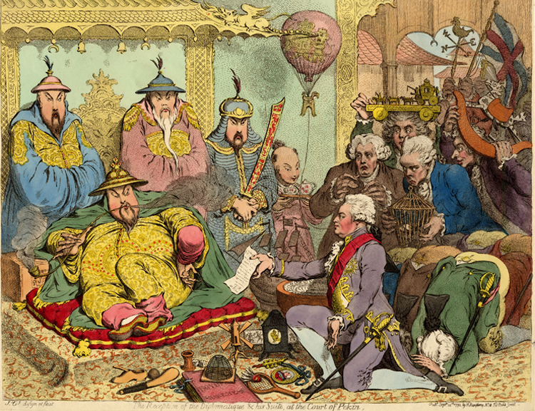 by James Gillray, published 14 September 1792. "A caricature on Lord Macartney's Embassy to China and on the little which the Ambassador and his government are presumed to have known of the manners and tastes of the people they wanted to conciliate (the purpose of the visit was to propose the creation of a permanent English mission to the court of Peking). Chinese etiquette is, that extreme prostrations should be made before the Emperor, which it was intimated Lord Macartney would not conform to. The whole contour of the Emperor is indicative of cunning and contempt and his indifference to the numerous gifts displaying the skill of British manufacturing, is evident. The German face bringing in the cage is Mr Huttner of the Foreign Office, who acted as an interpreter and published his own account of the visit. As soon as Lord Macartney had declined to make the required prostrations, only going down on one knee, he was dismissed from the presence of the Emperor. He was later ordered to quit Peking within two days and was given a letter addressed to George III wherein the Emperor states that,'As your Ambassador can see for himself, we possess all things. I set no value on objects strange or ingenious, and have no use for your country's manufactures'. An attache, Aeneas Anderson, later recalled that "we entered Pekin like Paupers, remained in it like Prisoners and departed from it like Vagrants".